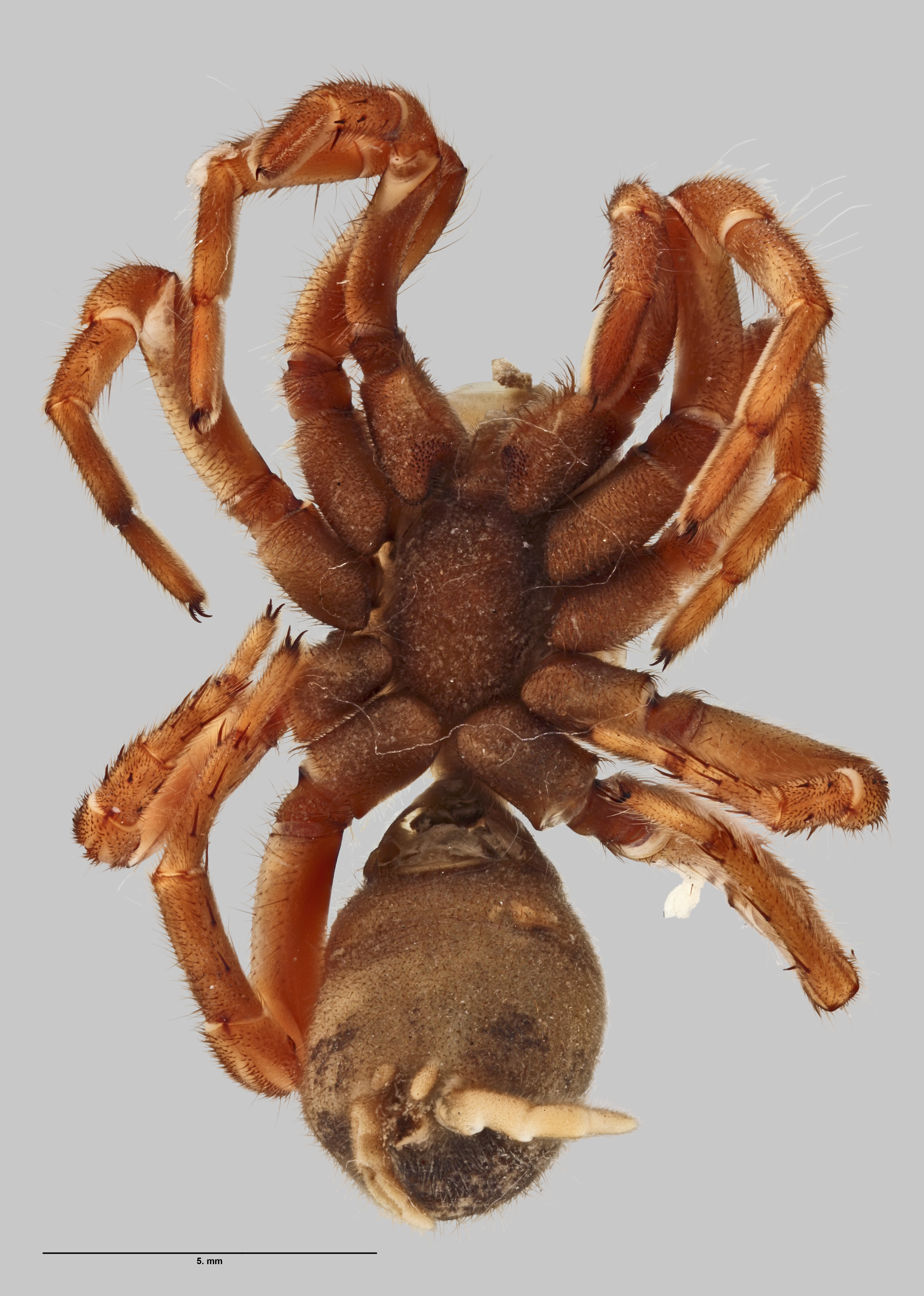 Ventral view of the female holotype specimen of Stanwellia hapua AMNZ5044 held at the Auckland War Memorial Museum.